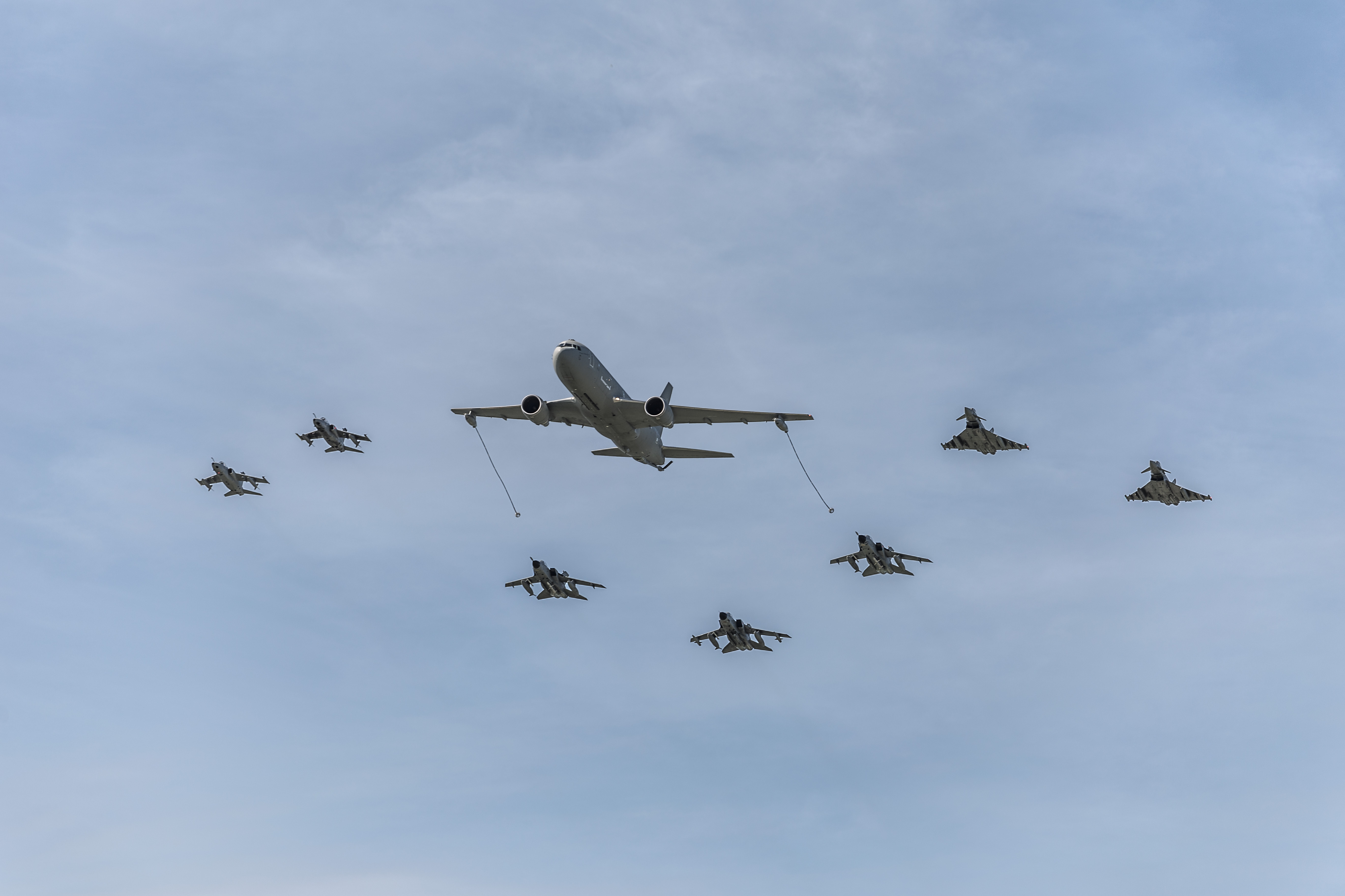 KC-767 tanker in the lead, two AMX on the left, two Eurofighter jets on the right and three Tornados at the end of an Italian formation flying over Trapani Air Base. NATO photo by Miks Uzans